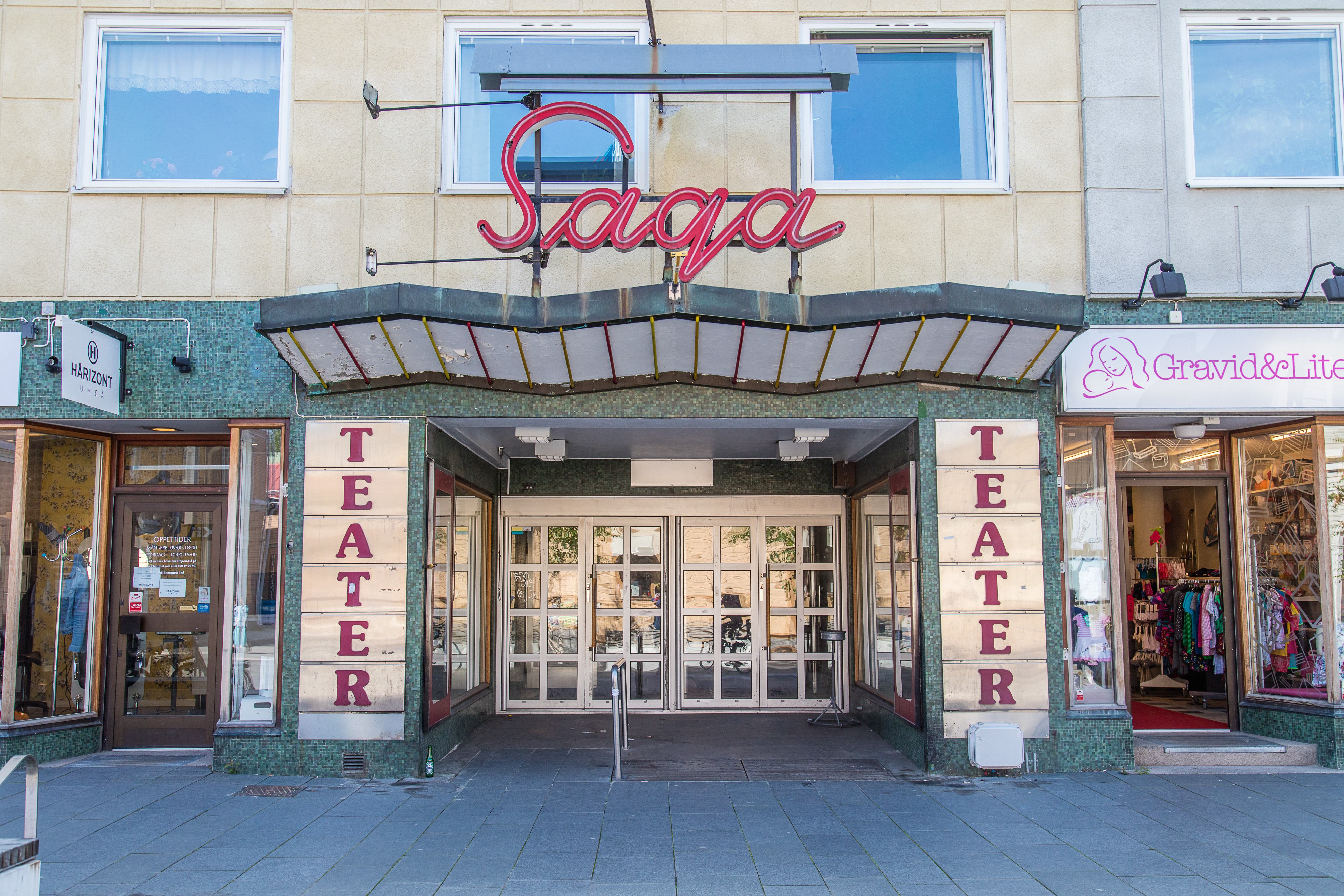 Saga was originally (1959) built as a cinema, but 1994 rebuilt to be used as a theatre.